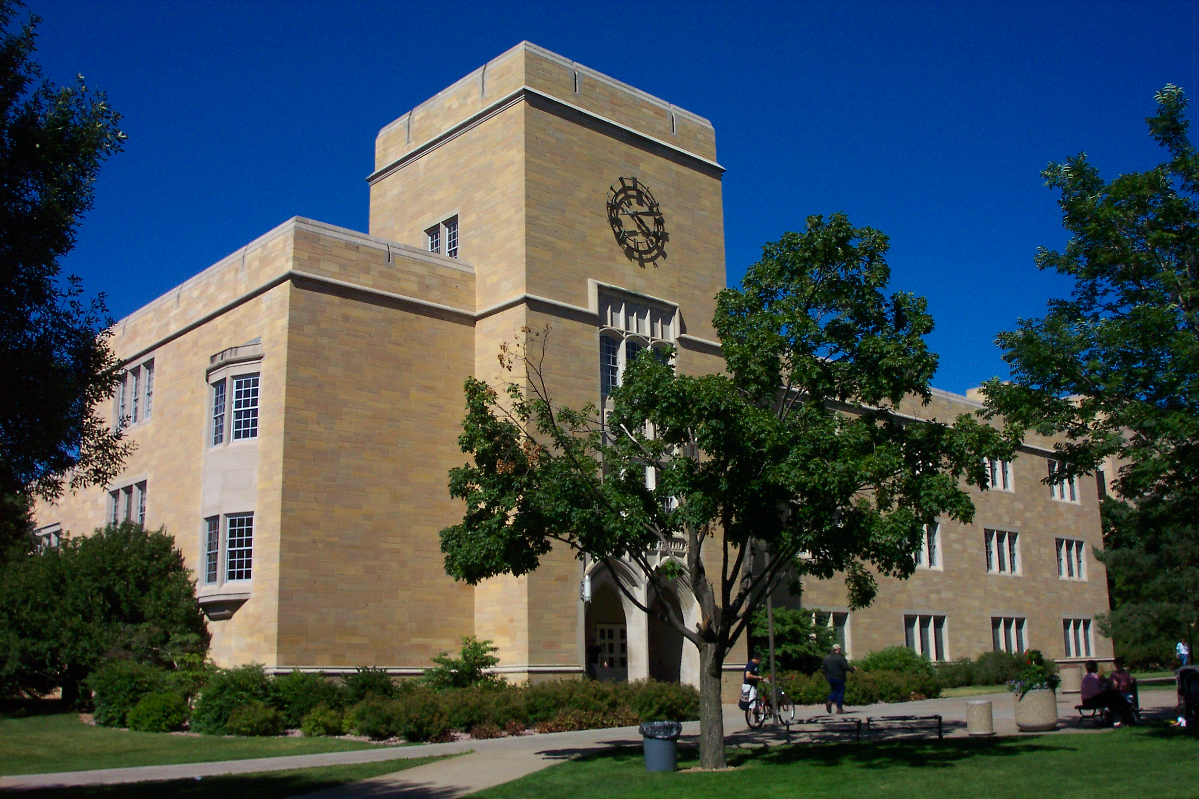 Murray-Herrick Center, at the University of St. Thomas's campus in St. Paul, Minnesota